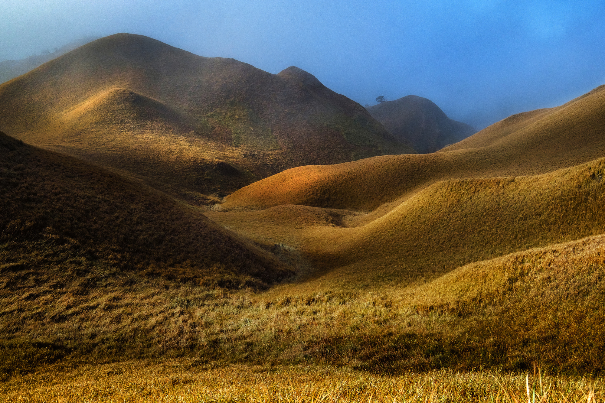 Taken during my climb at mount pulag, benguet philippines